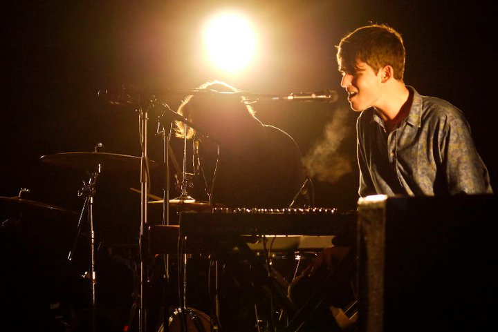 James Blake on the Park Stage at Glastonbury Festival 2011